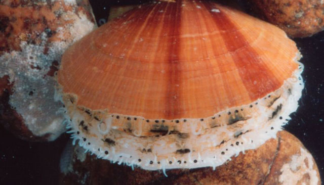 Atlantic sea scallop, Placopecten magellanicus. You can tell how old a scallop is by counting the number of annuli (rings) on their shells (kind of like counting tree rings on a stump).